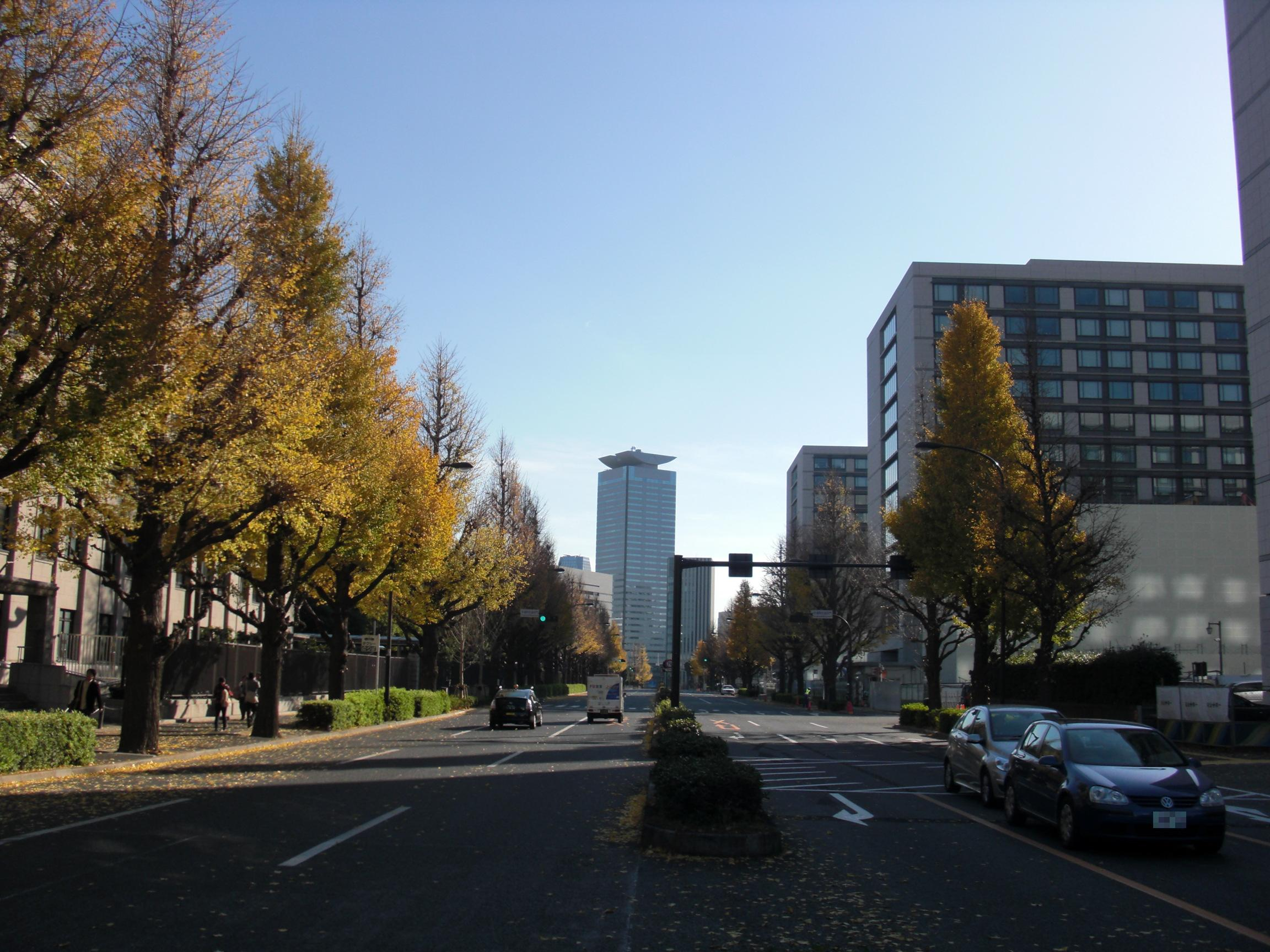 This is a landscape of Nagatacho 1 chome and 2 chome, Chiyoda, Tokyo, Japan. The left side of this picture is the gate of House of Councillors and the right side of this picture is Members' Office Buildings of the National Diet of Japan.